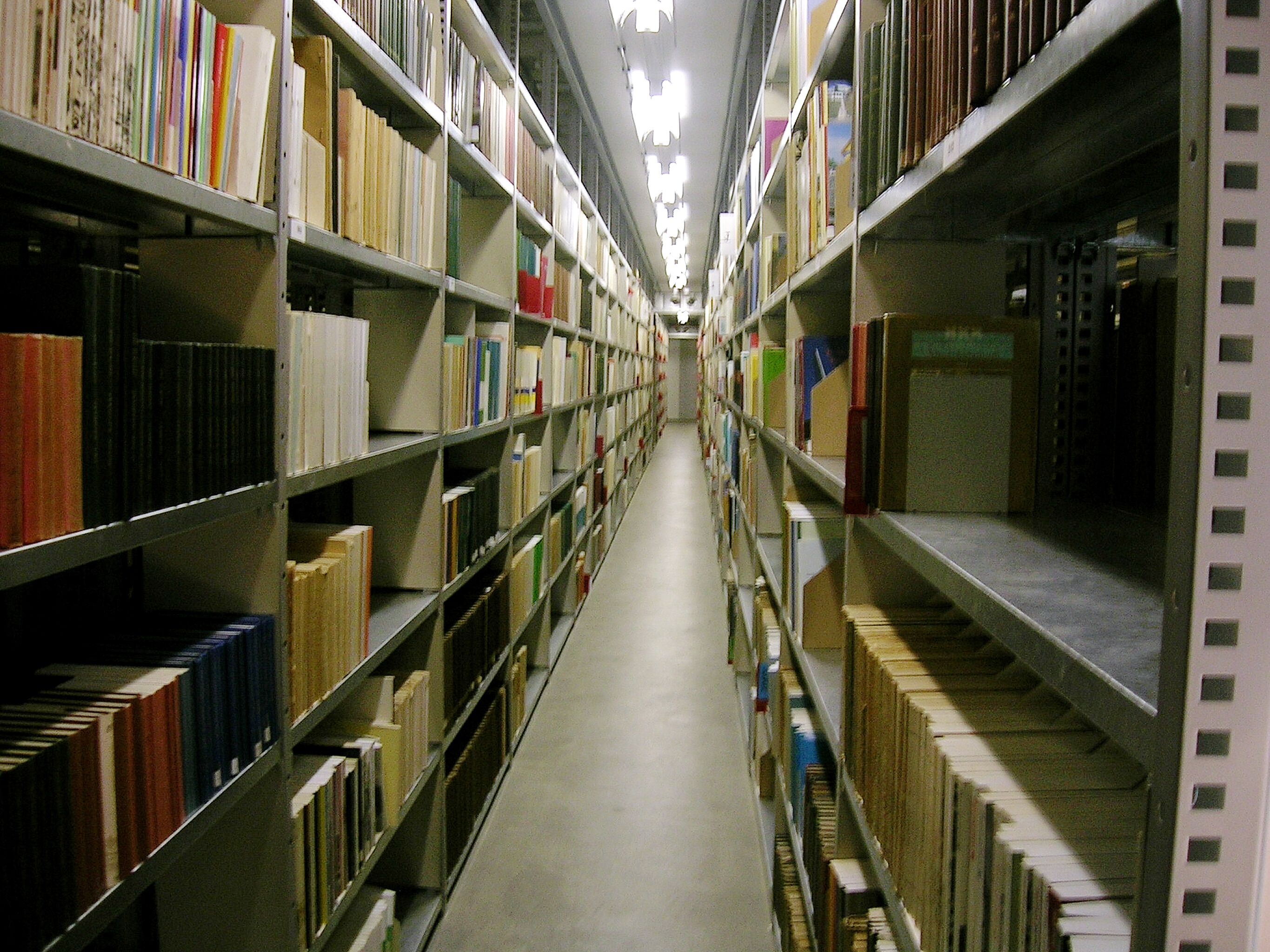 A row with books in the library of the Meertens Institute. Amsterdam, the Netherlands.